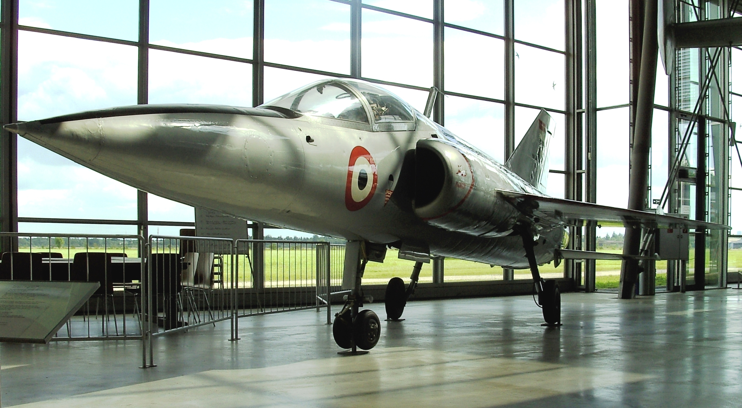 A former egyptian Helwan HA-300 aircraft is displayed in the Flugwerft Schleißheim.